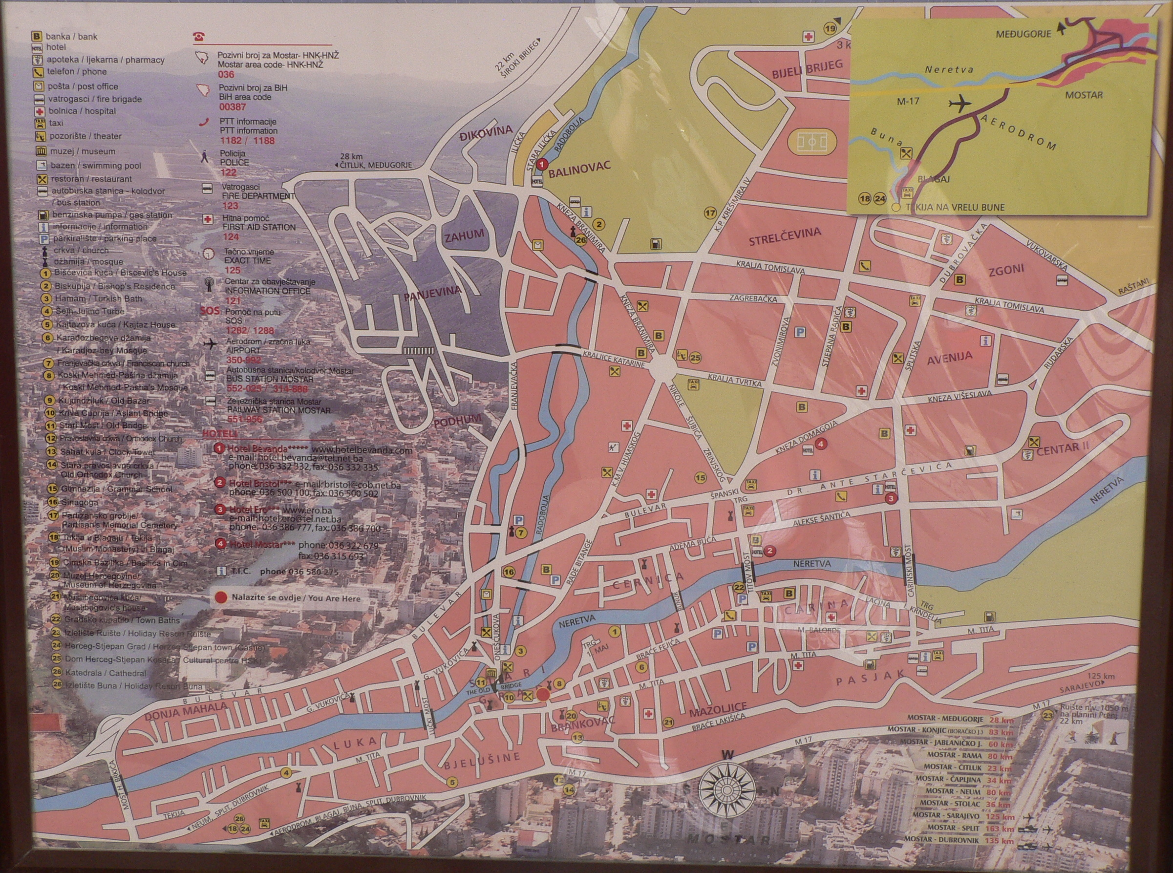 The only map of Mostar I had in town was a photo of this map that I found on flickr. It was a bit low res though, so I provide this as a public service! :)